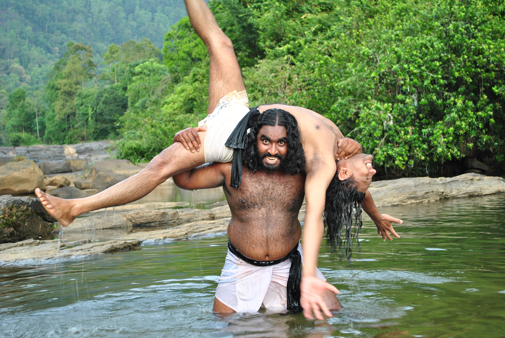 Angampora fighter ready to through one on the floor